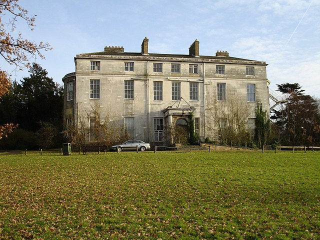 Mote House, Maidstone